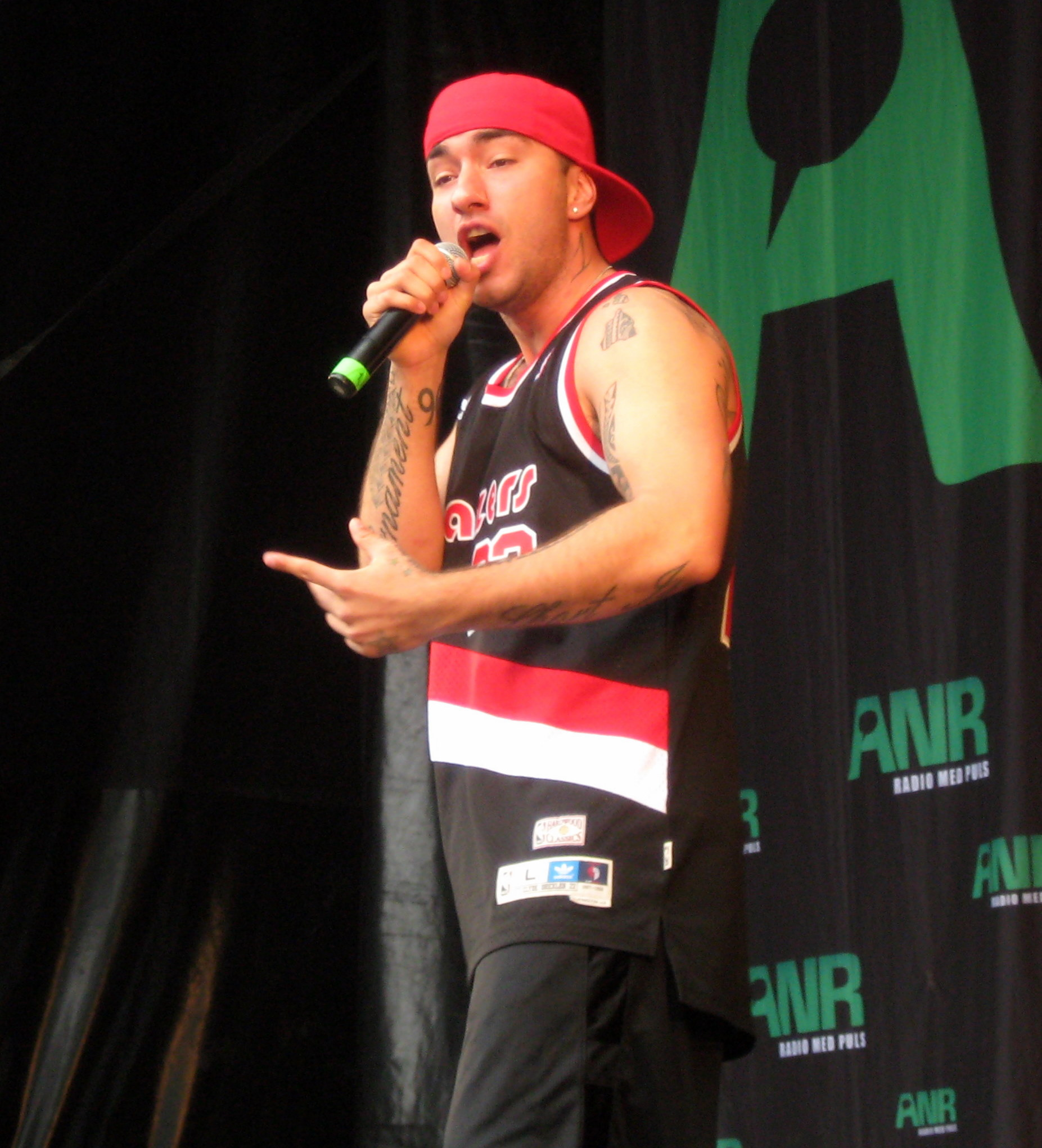 Joey Moe performing in Hjørring, 2011